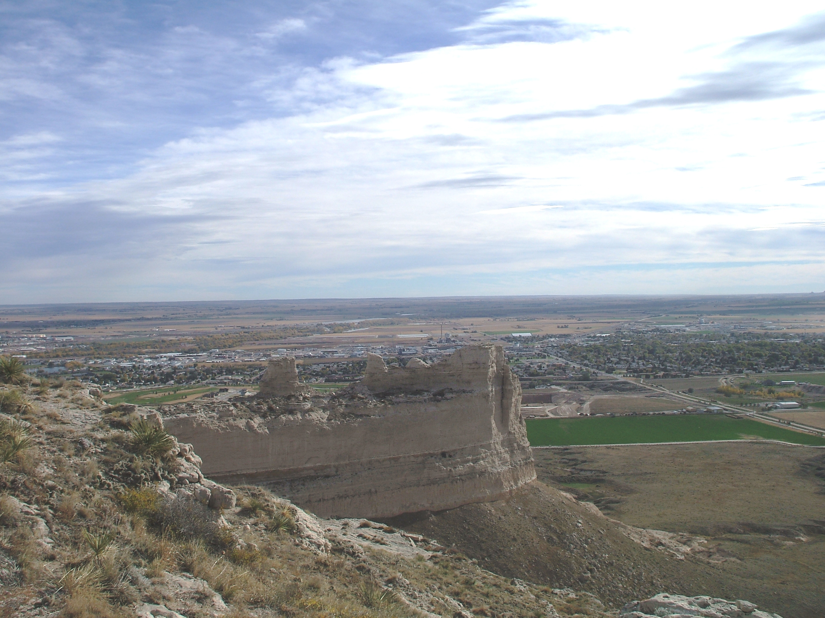 Overlooking Gering, Nebraska from Scotts Bluff National Monument.